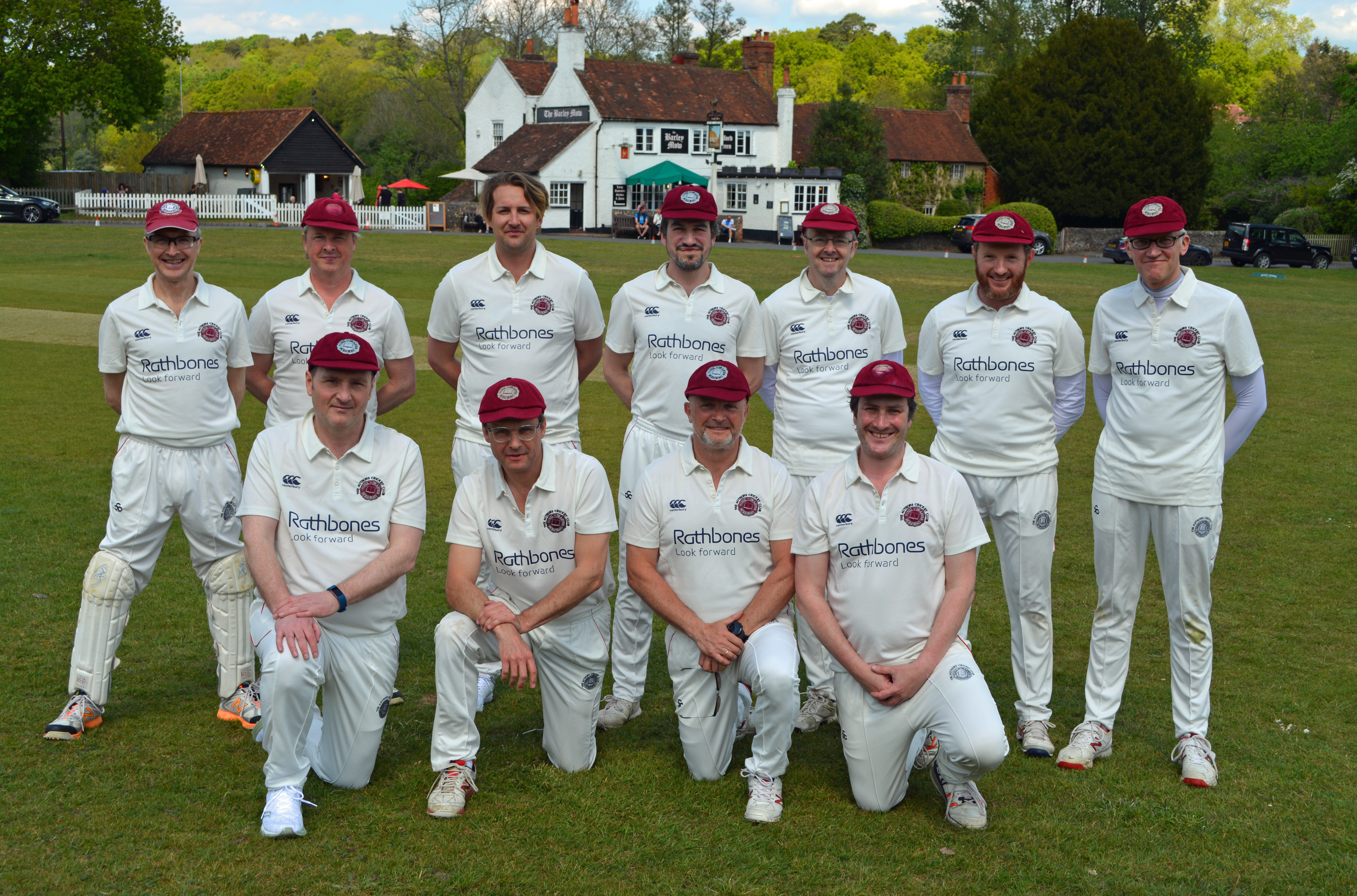 Authors Cricket Club team group prior to a match on Tilford green